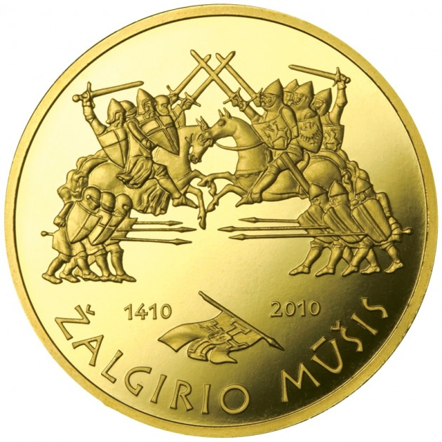 Denomination 500 litas Gold Au 999.9 Diameter 33.00 mm Weight 31.10 g Quality proof Mintage 5,000 pieces